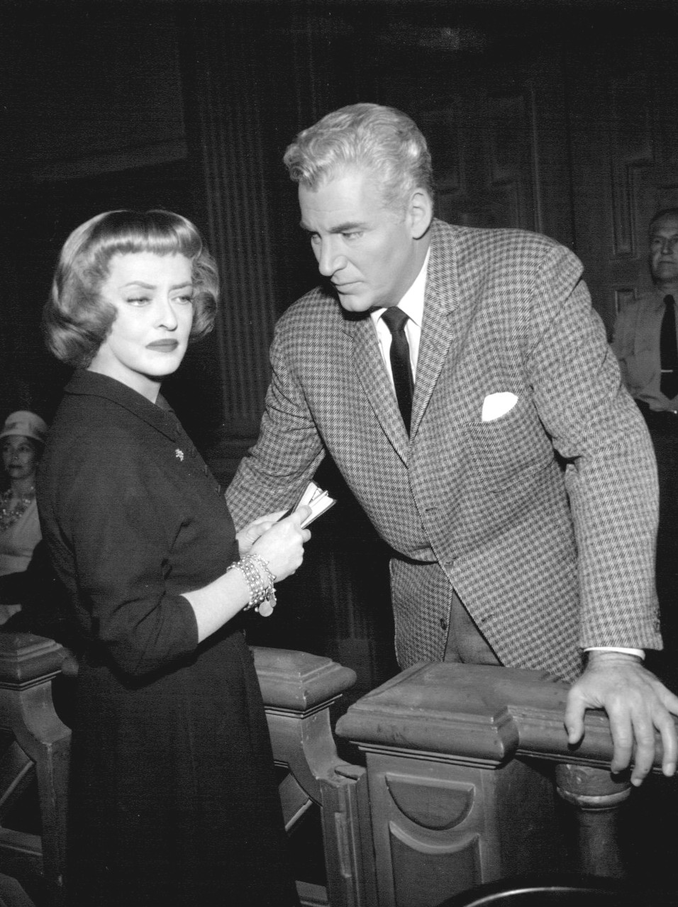 Photo of Bette Davis as Constant Doyle and William Hopper as Paul Drake from the television series Perry Mason. Raymond Burr was recovering from minor surgery when this was filmed and it was written into this script that Perry Mason was in the hospital. Bette Davis was then written into the episode as attorney Constant Doyle in "The case of Constant Doyle".